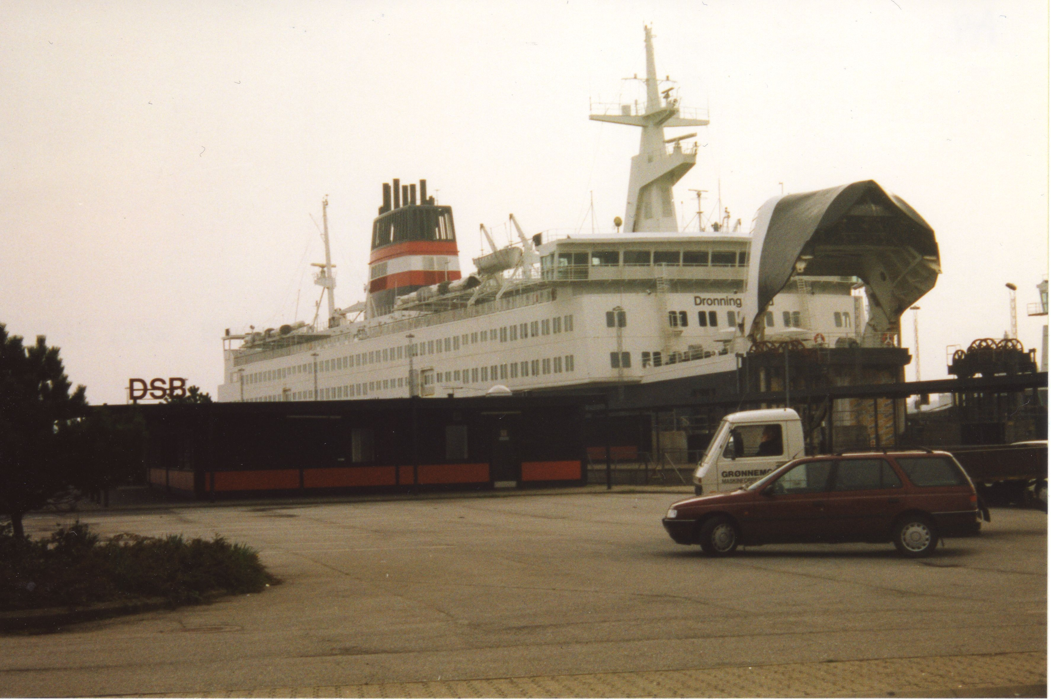 Trainferry Dronning Ingrid Laid up.